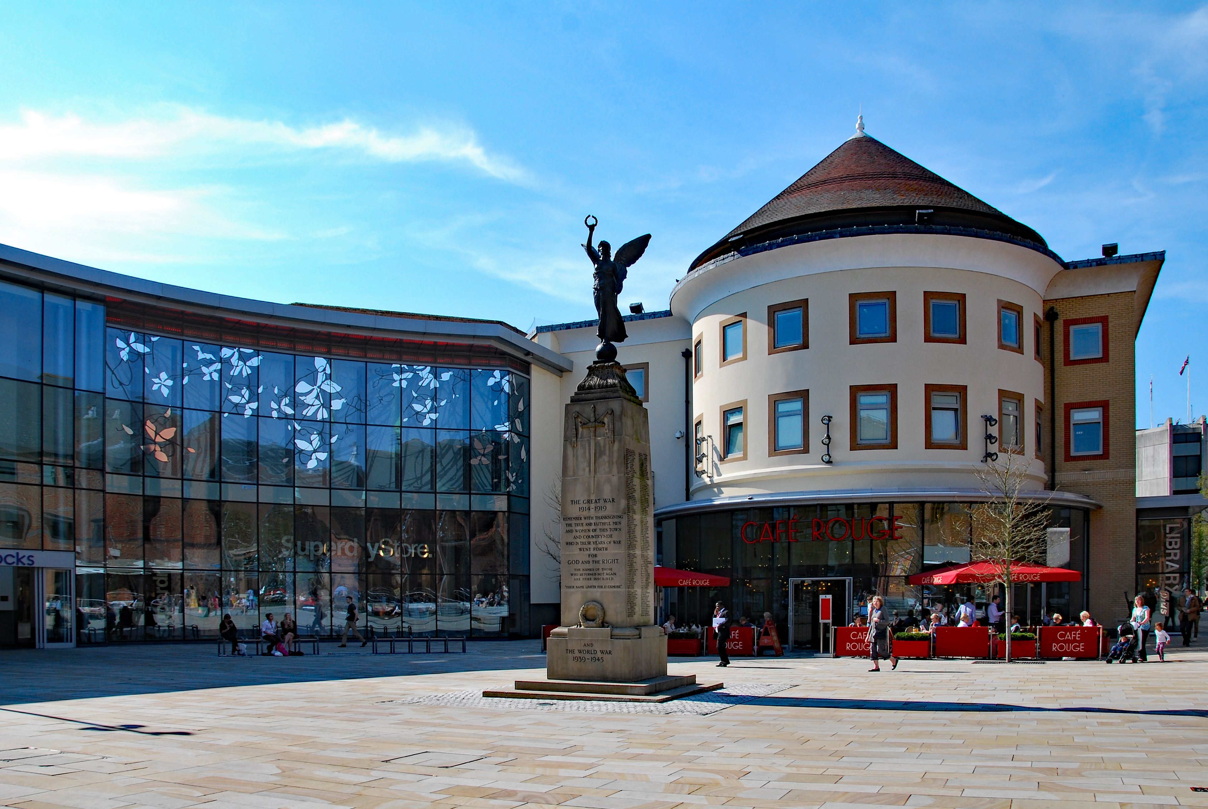 The Great War monument, Jubilee Square, Woking England